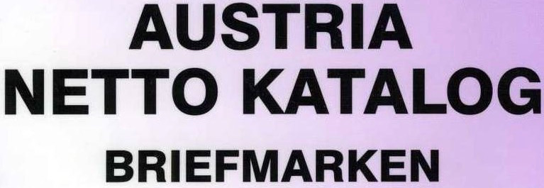 Austria Netto Katalog logo cropped from the catalog cover